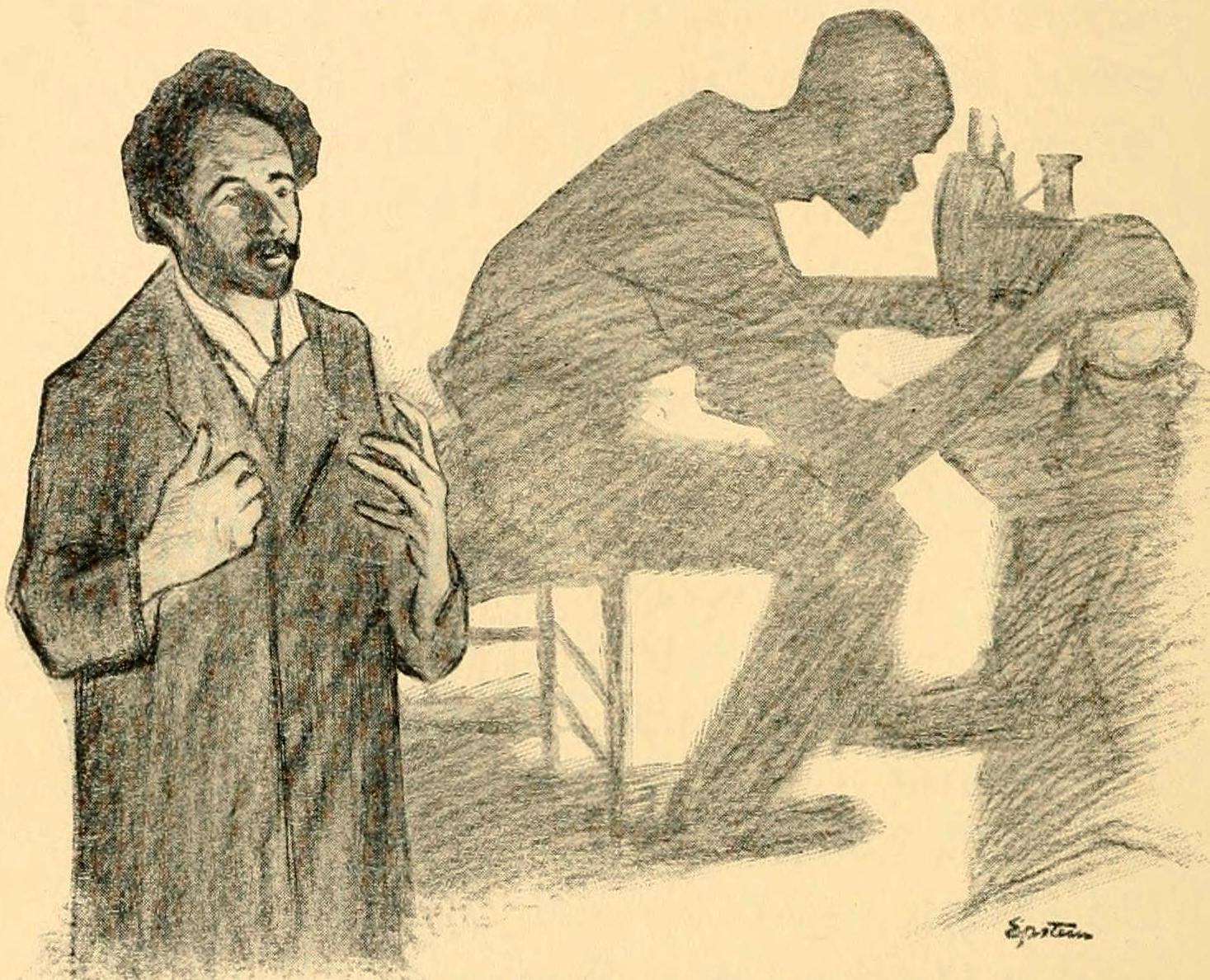 From :The spirit of the Ghetto; studies of the Jewish quarter in New York